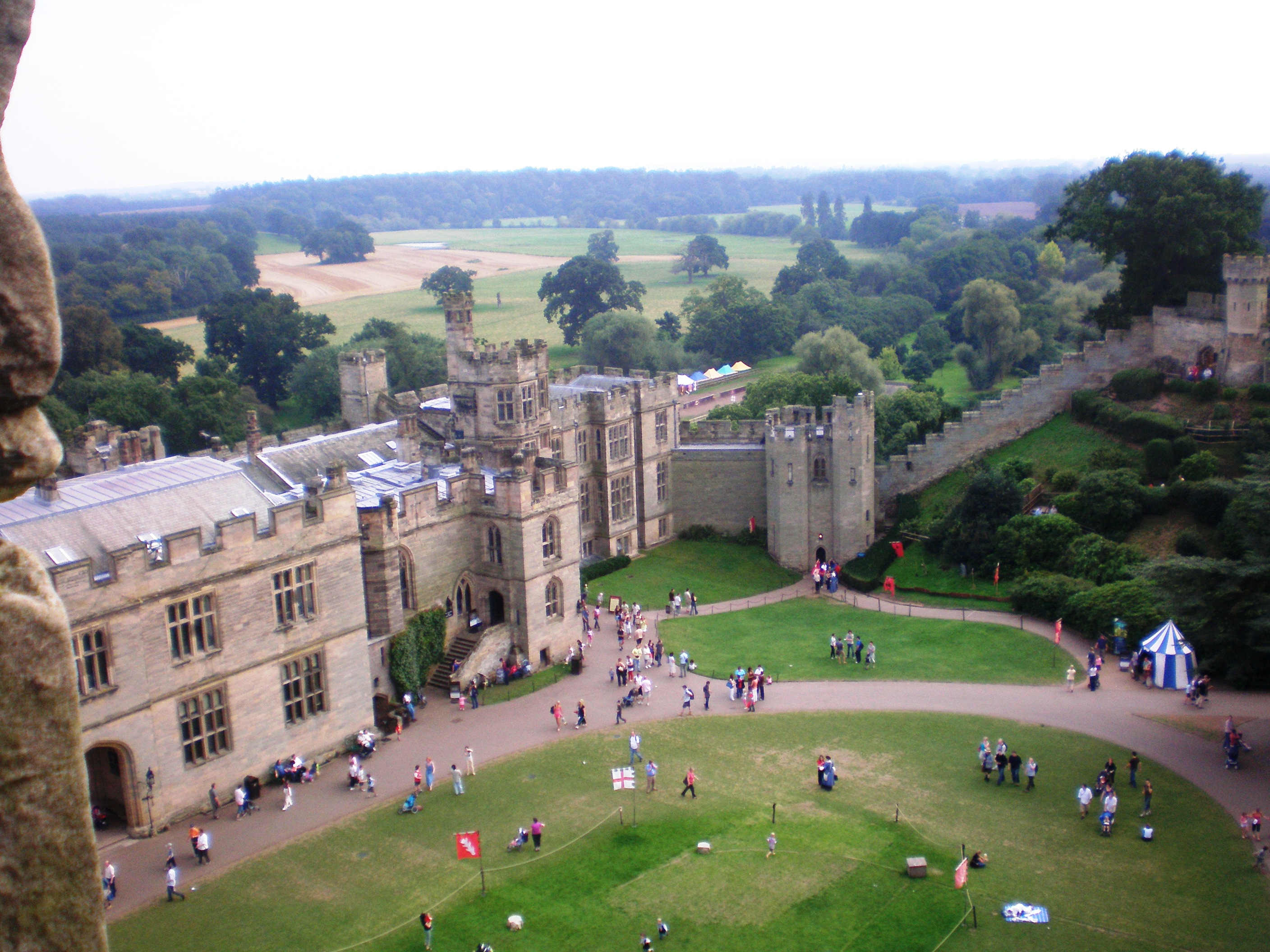 Warwick castle